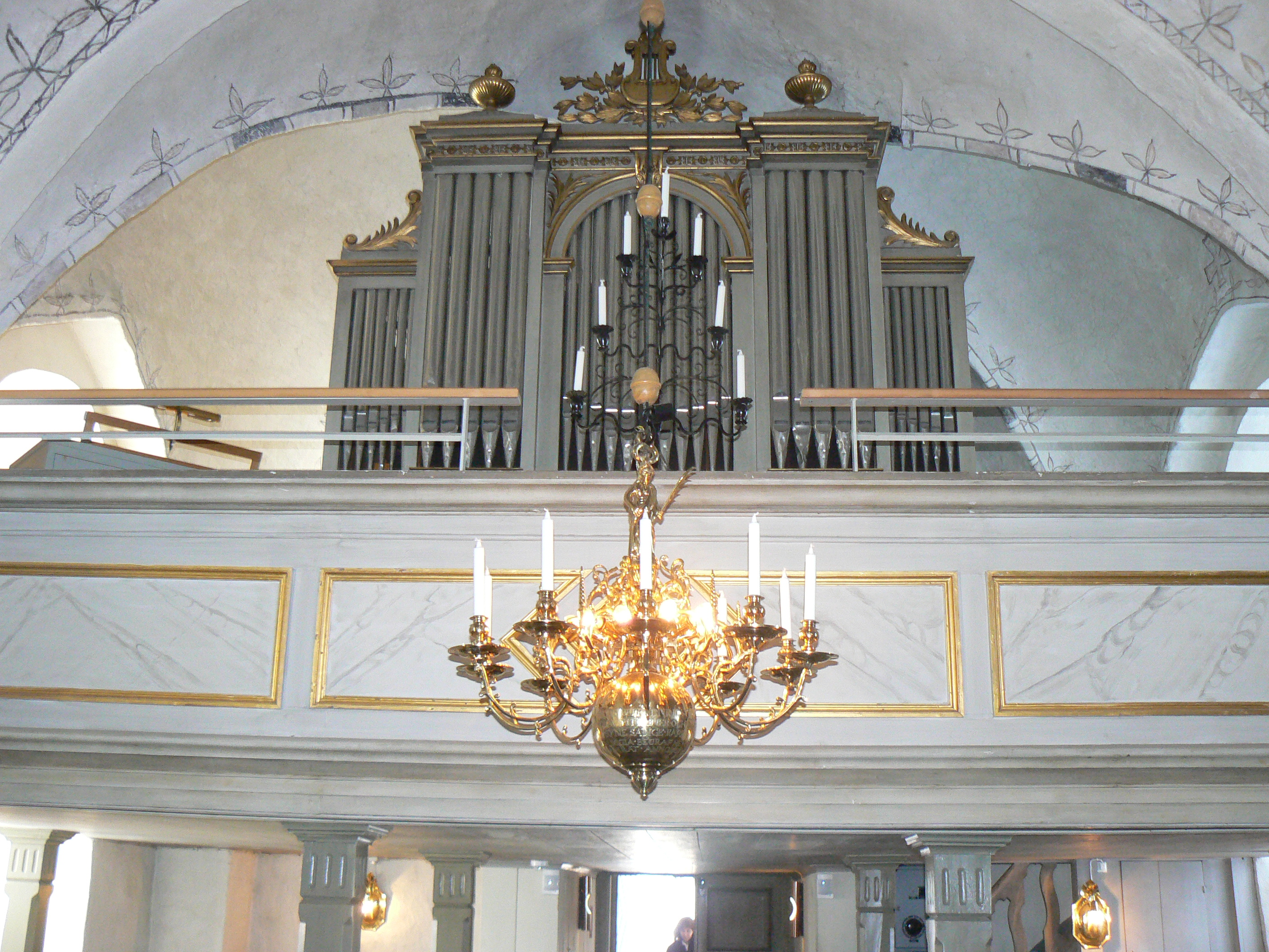 Church organ of Örtomta church, Östergötland, Sweden